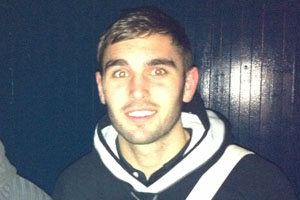 Photo taken by myself of Greg Taylor following the Tamworth Vs. Darlington game on January 22 2011 at The Lamb Ground.